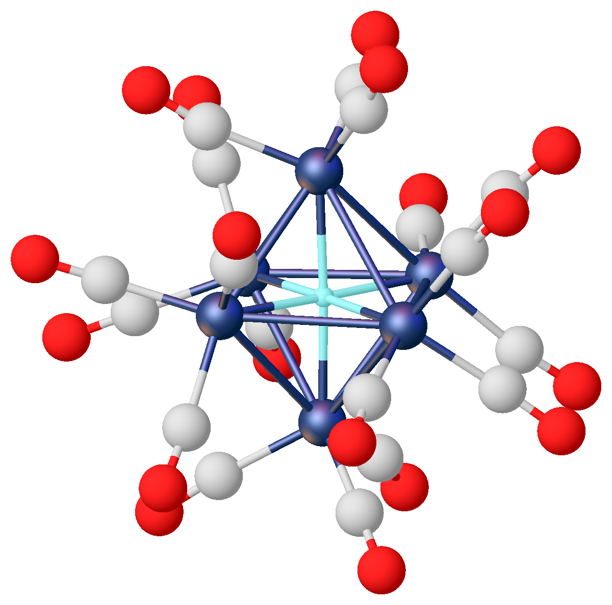 Structure of [HRu6(CO)18]- from doi 10.1039/c39800000295